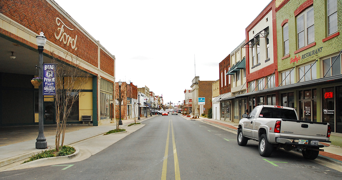 Conway's historic downtown